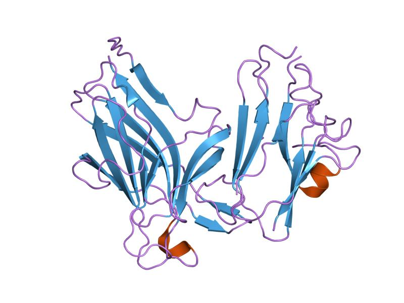 Cartoon representation of the molecular structure of protein registered with 2hle code.